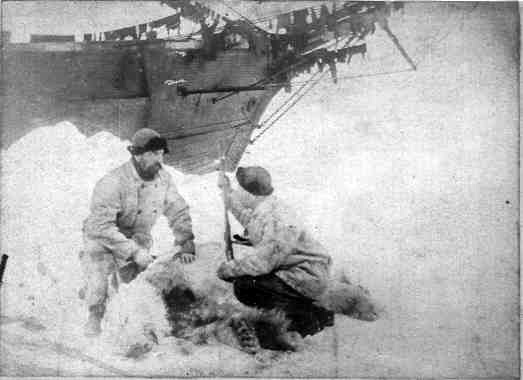 Captain Axel Krefting, commander of the sealer Viking, and Fridtjof Nansen. Nansen joined Krefting on his ship in search of seal herds throughout the water surrounding Greenland and Spitsbergen.